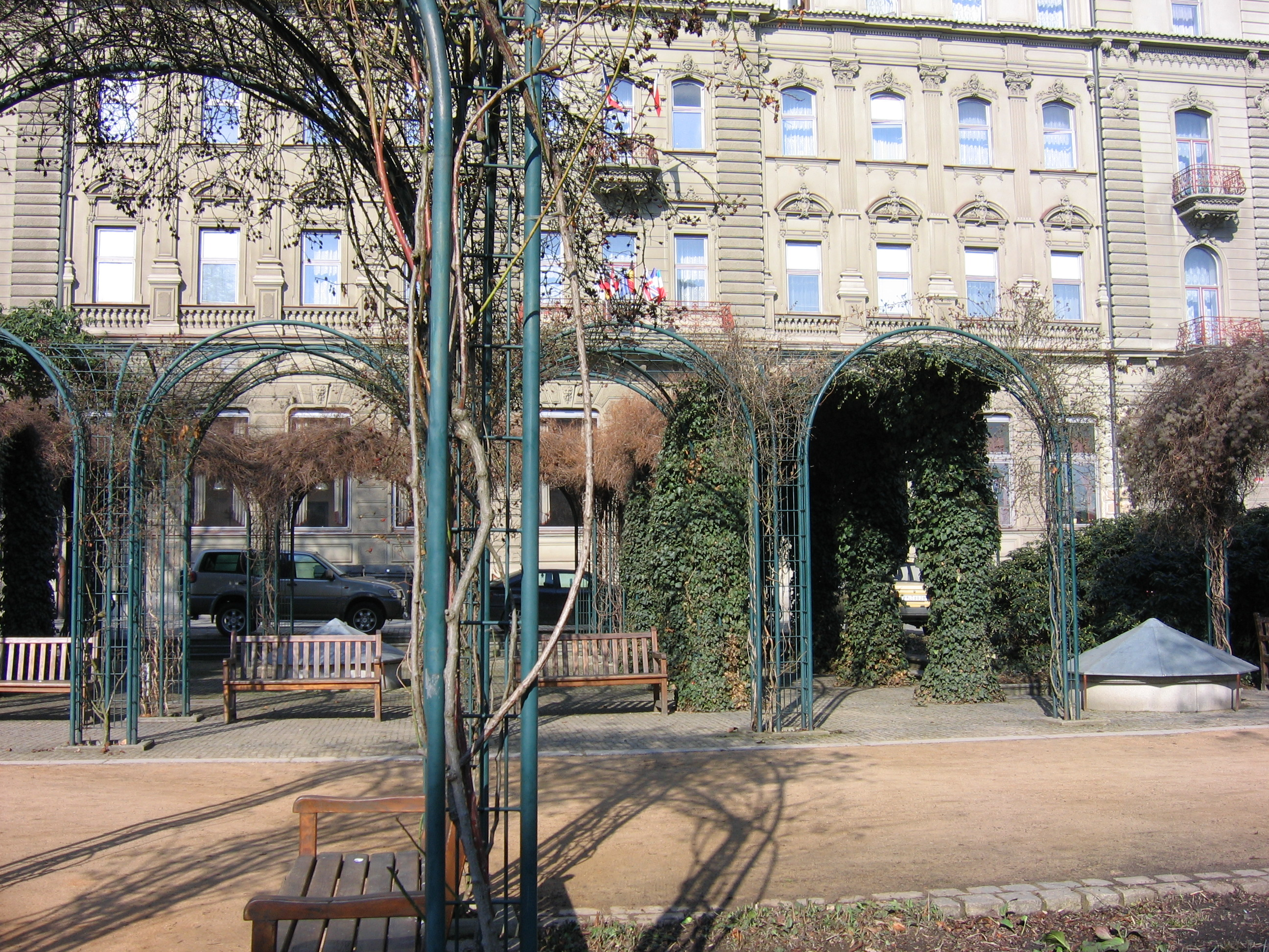 City of Plzeň, Czech Republic.